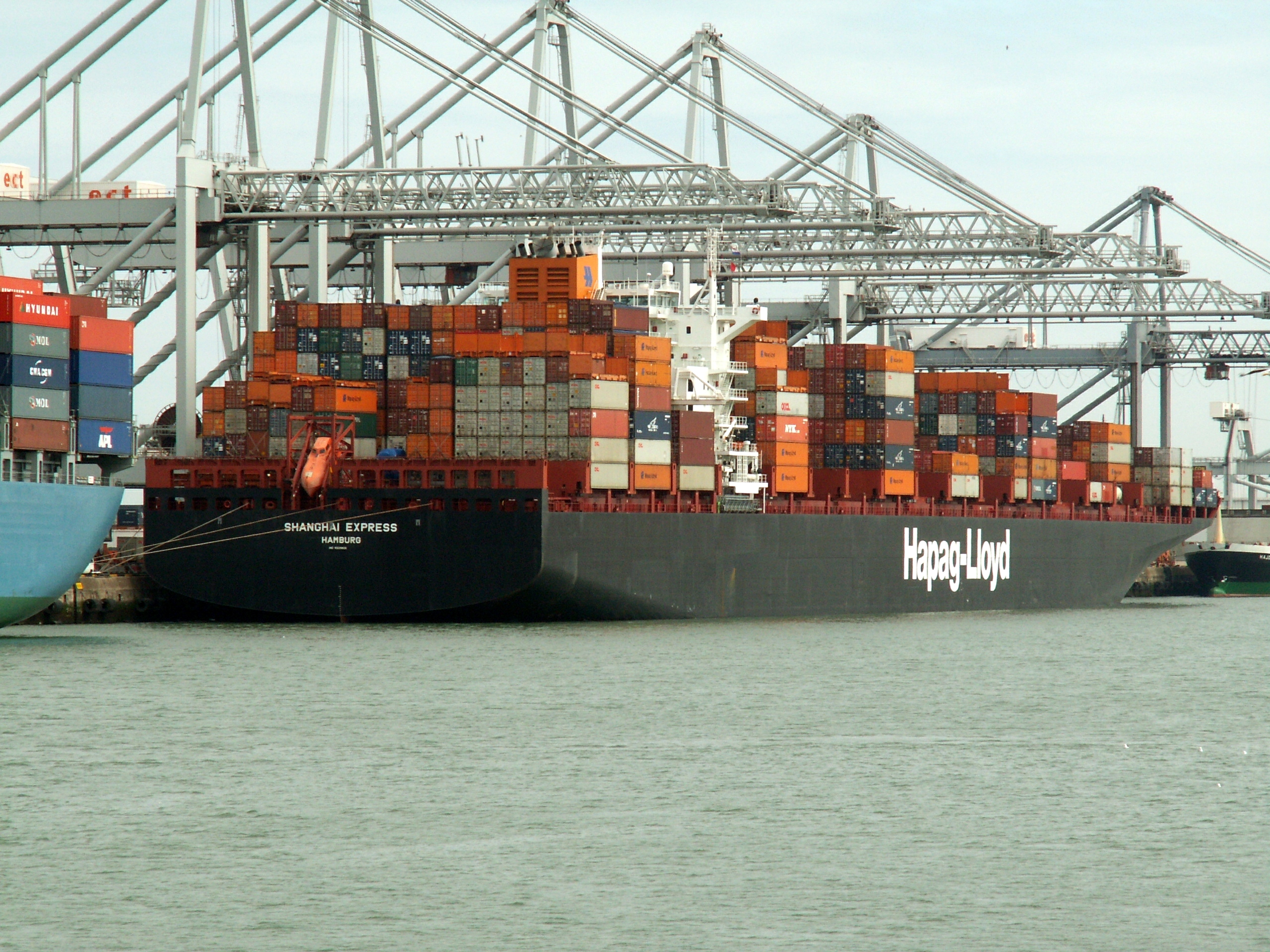 Shanghai Express Port of Rotterdam 17-Apr-2006.